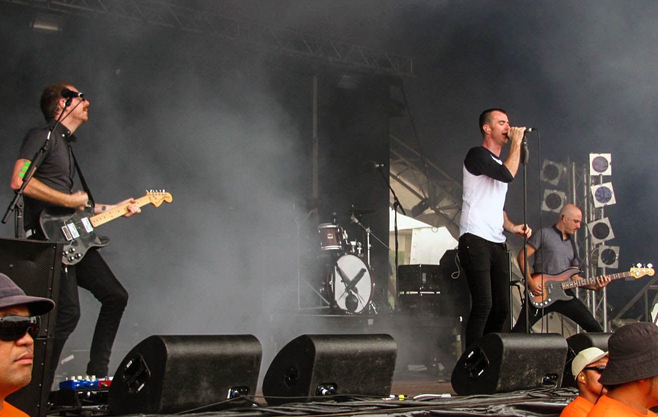 Birds of Tokyo performing in Mt Smart Stadium, Auckland, for the Big Day Out 2011